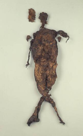 Remains of the bog body Exloërmond Man. The bog body was discovered in Exloërveen, Province Drenthe, Netherlands on 15 May 1914.